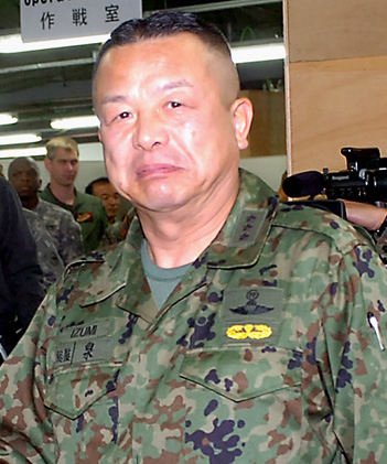 Lieutenant General Kazushige Izumi, commander Japan Ground Self Defense Force Eastern Army